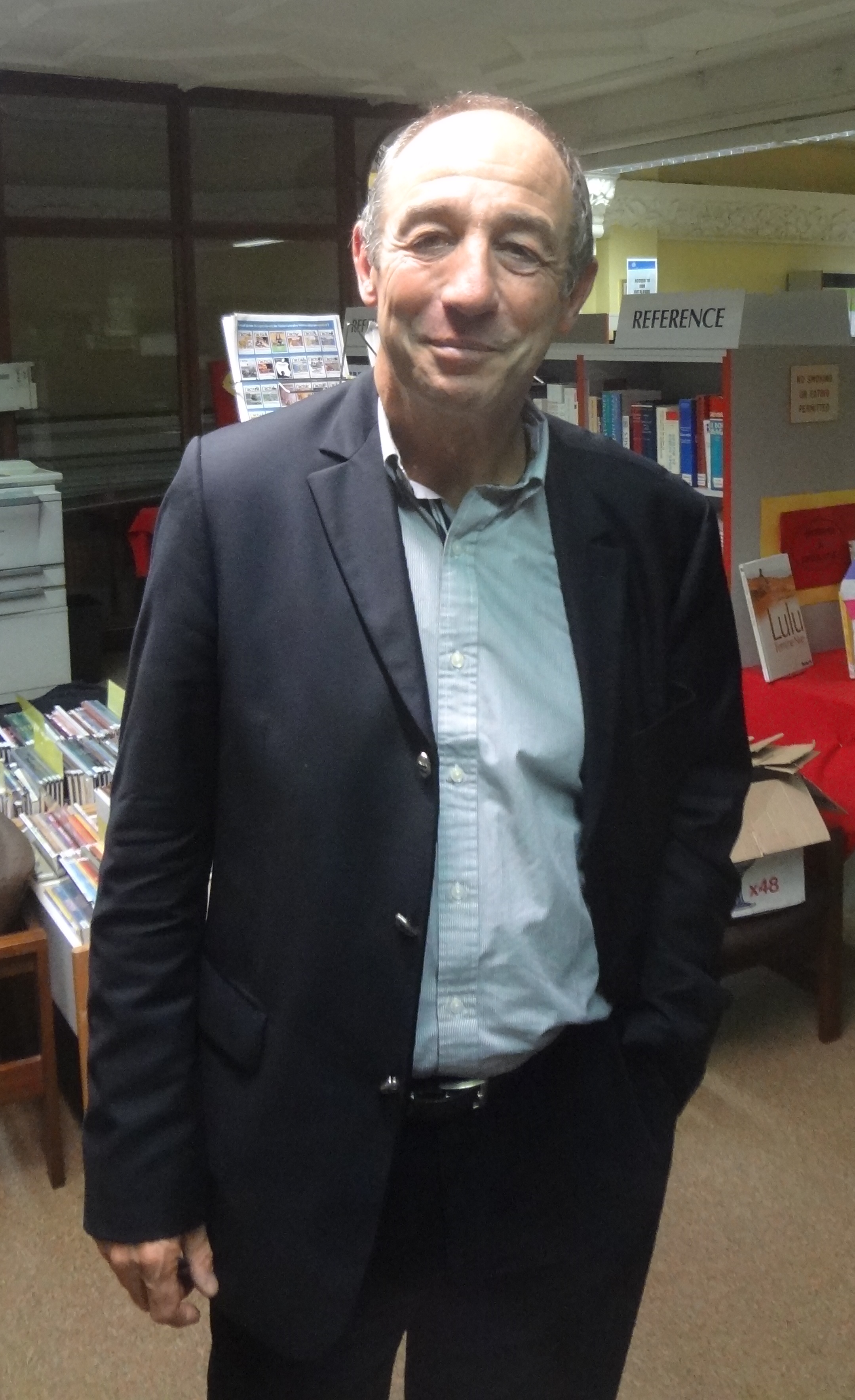 Jean-Michel Aguirre in November 2011 in Dublin, Ireland for a presentation of French Rugby at the Aliance Francaise